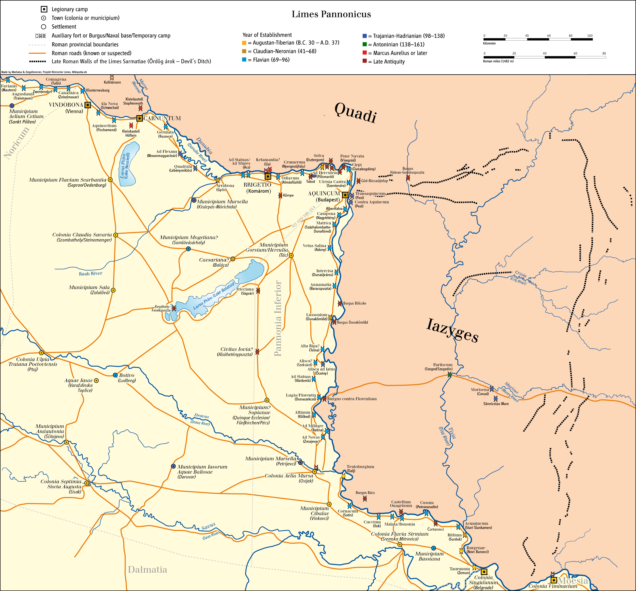 English version of the map, which first appeared in German Wikipedia for the "Project Roman Limes". Made by users: Mediatus and Ziegelbrenner.